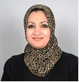 2009 International Women of Courage Award Secretary of State Hillary Rodham Clinton hosted the 3rd annual International Women of Courage Awards ceremony on March 11, 2009 with guest speaker First Lady Michelle Obama in the Benjamin Franklin Room at the State Department.